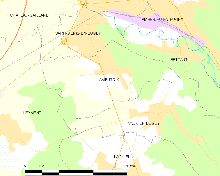 Map of French commune: Ambutrix Map commune FR insee code 01008.png